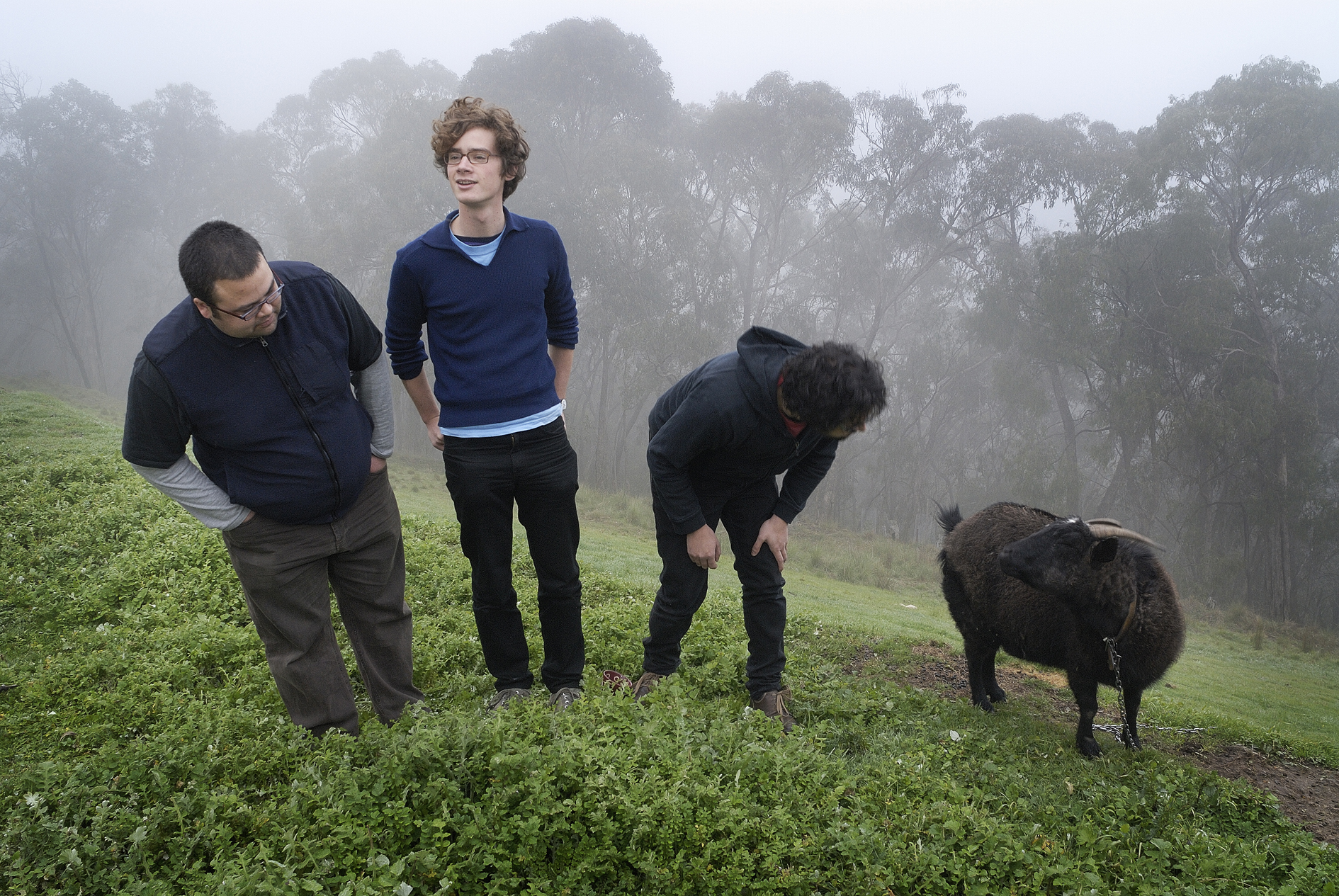 photo by Ben Forster.